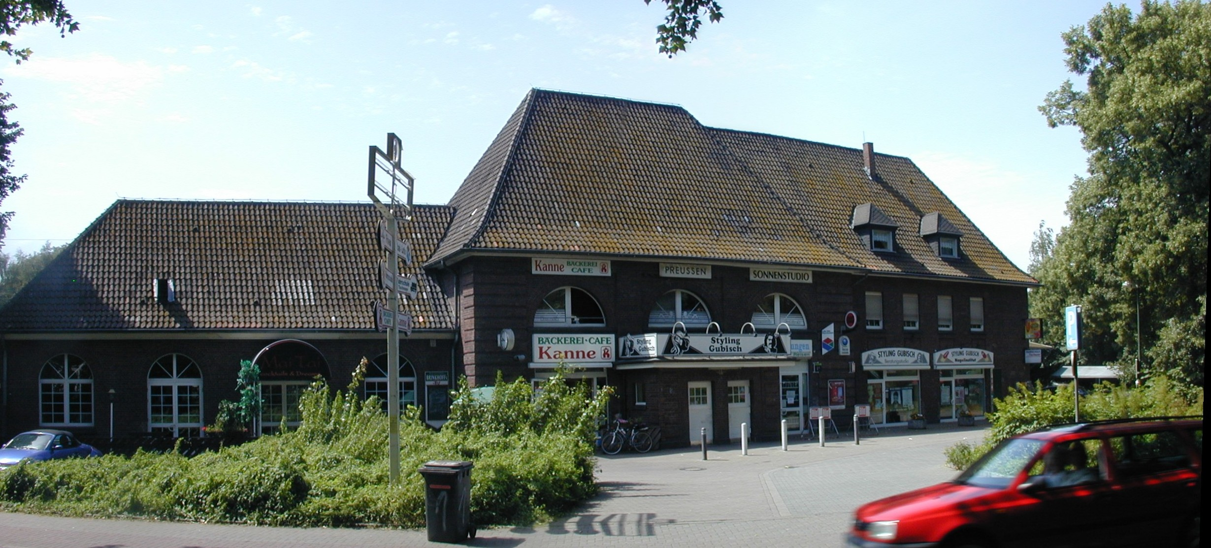 Bahnhof Preussen in Lünen-Horstmar This panoramic image was created with Autostitch. Stitched images may differ from reality.